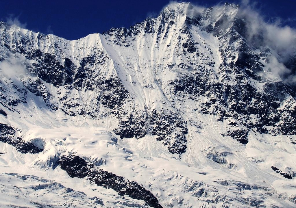 Mount Dom, near Saas Fee